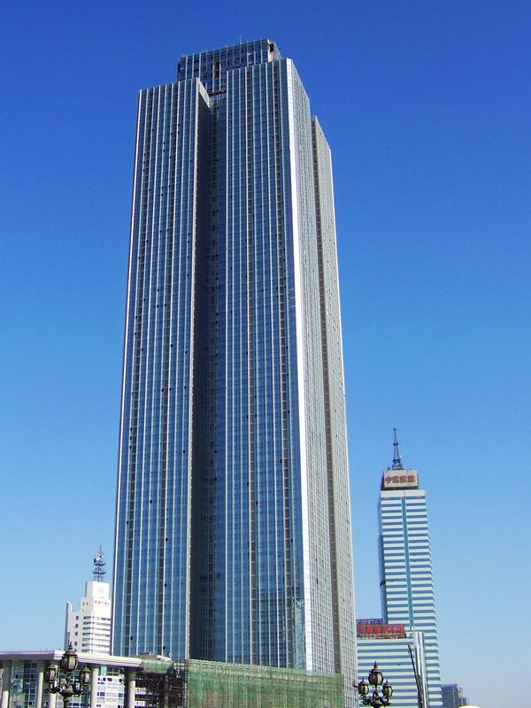 Junlintianxia，taken on Bei'an bridge.